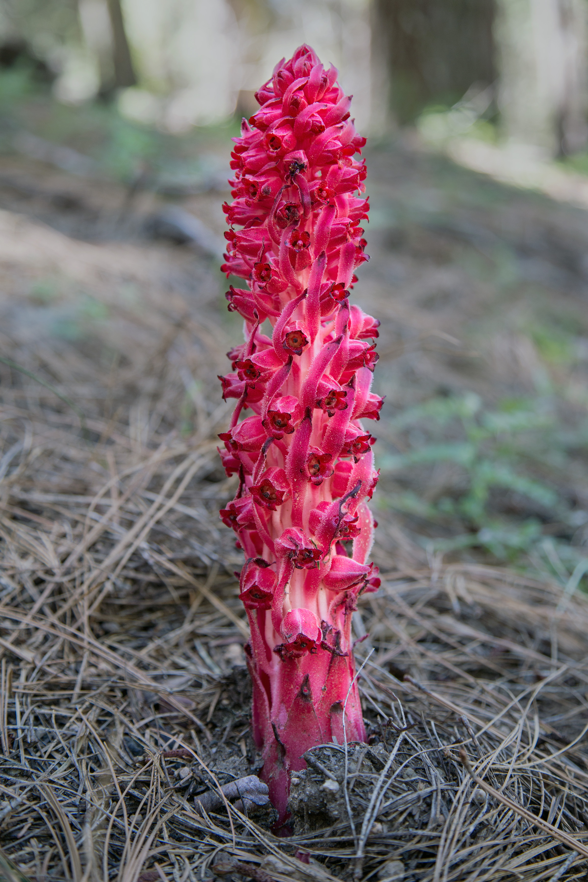 Sarcodes sanguinea — Snow plant. In the foothills of western Yosemite National Park.